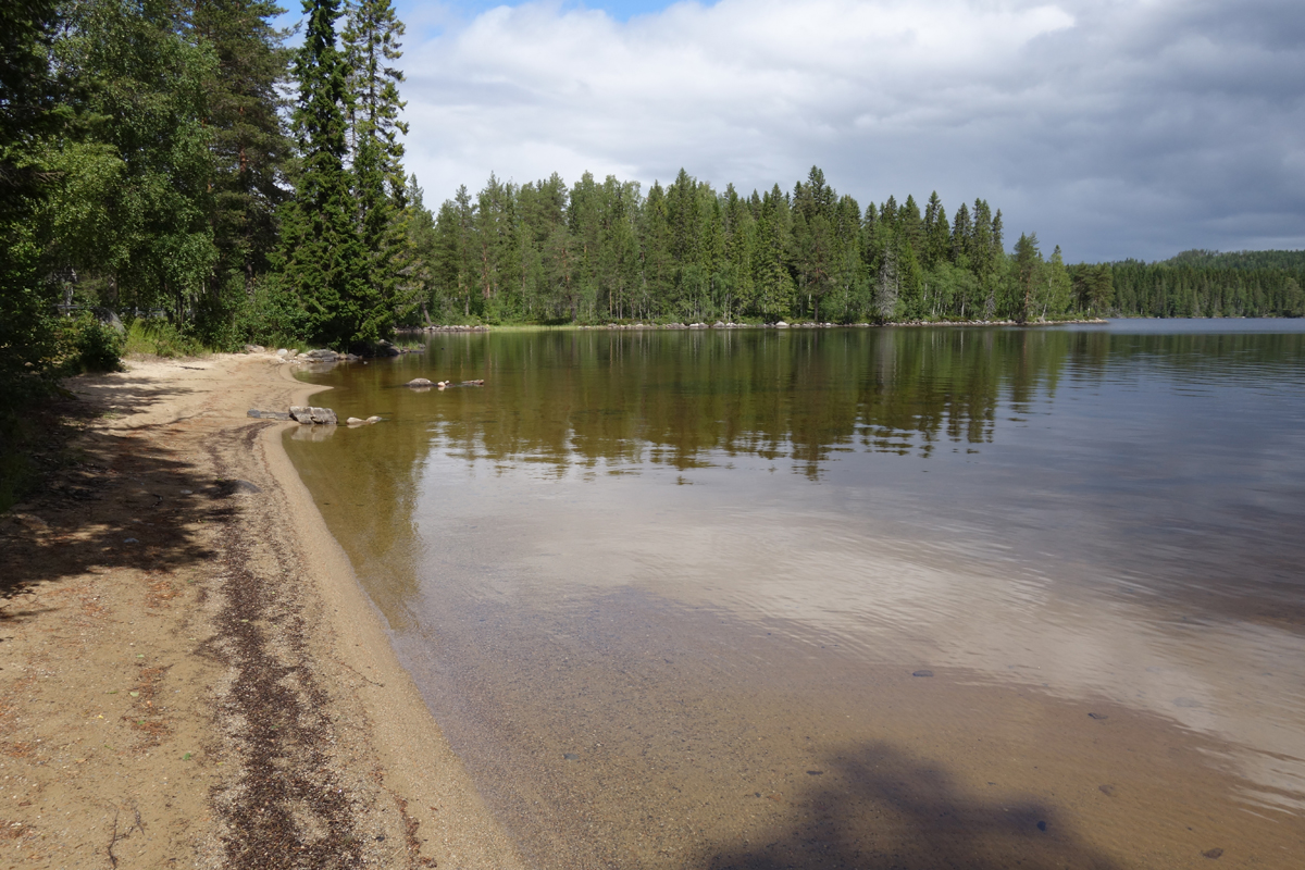 Långviken Bay in Lake Gålsjön, Kramfors Municipality, northern Sweden